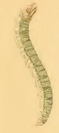 Stainton’s Natural History of the Tineina (1855–1873): Zelleria oleastrella